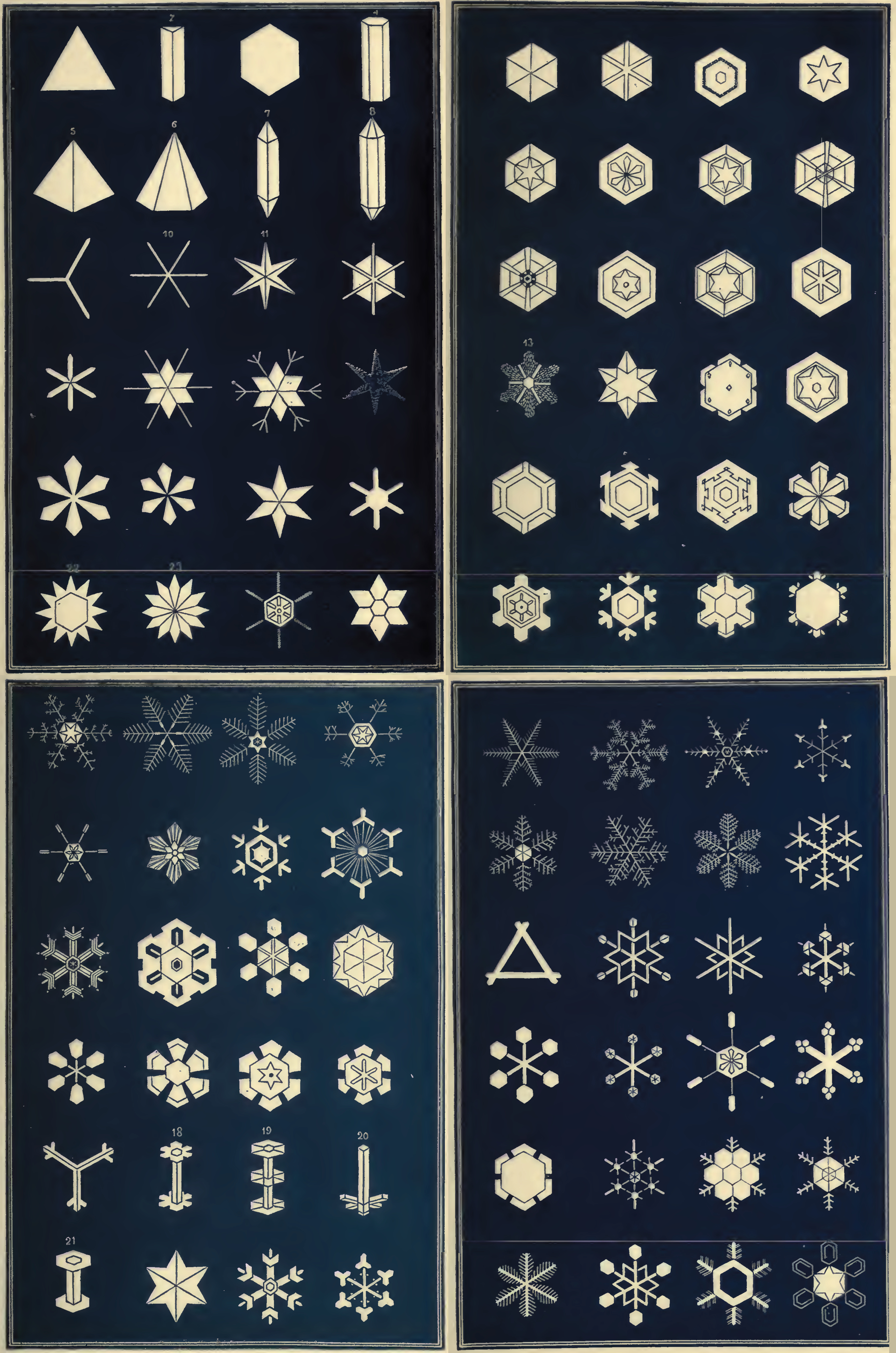 Snowflakes: a chapter from the book of nature ([c1863])